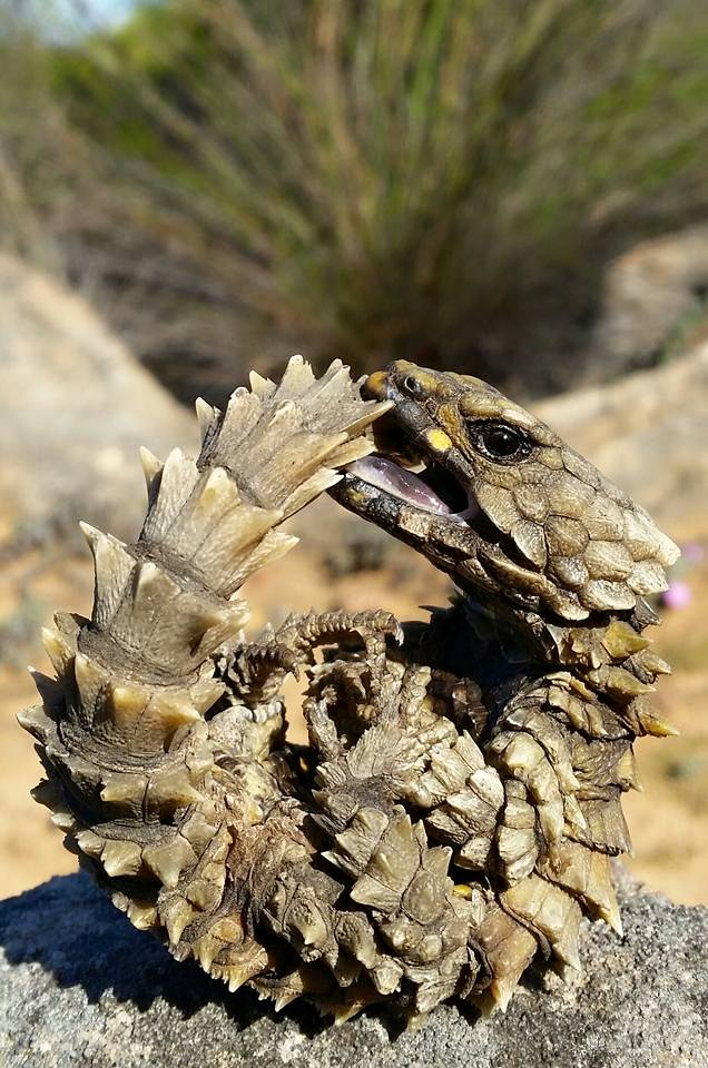 Ouroborus cataphractus - in sandveld 10km west of Trawal - South-western Cape, South Africa